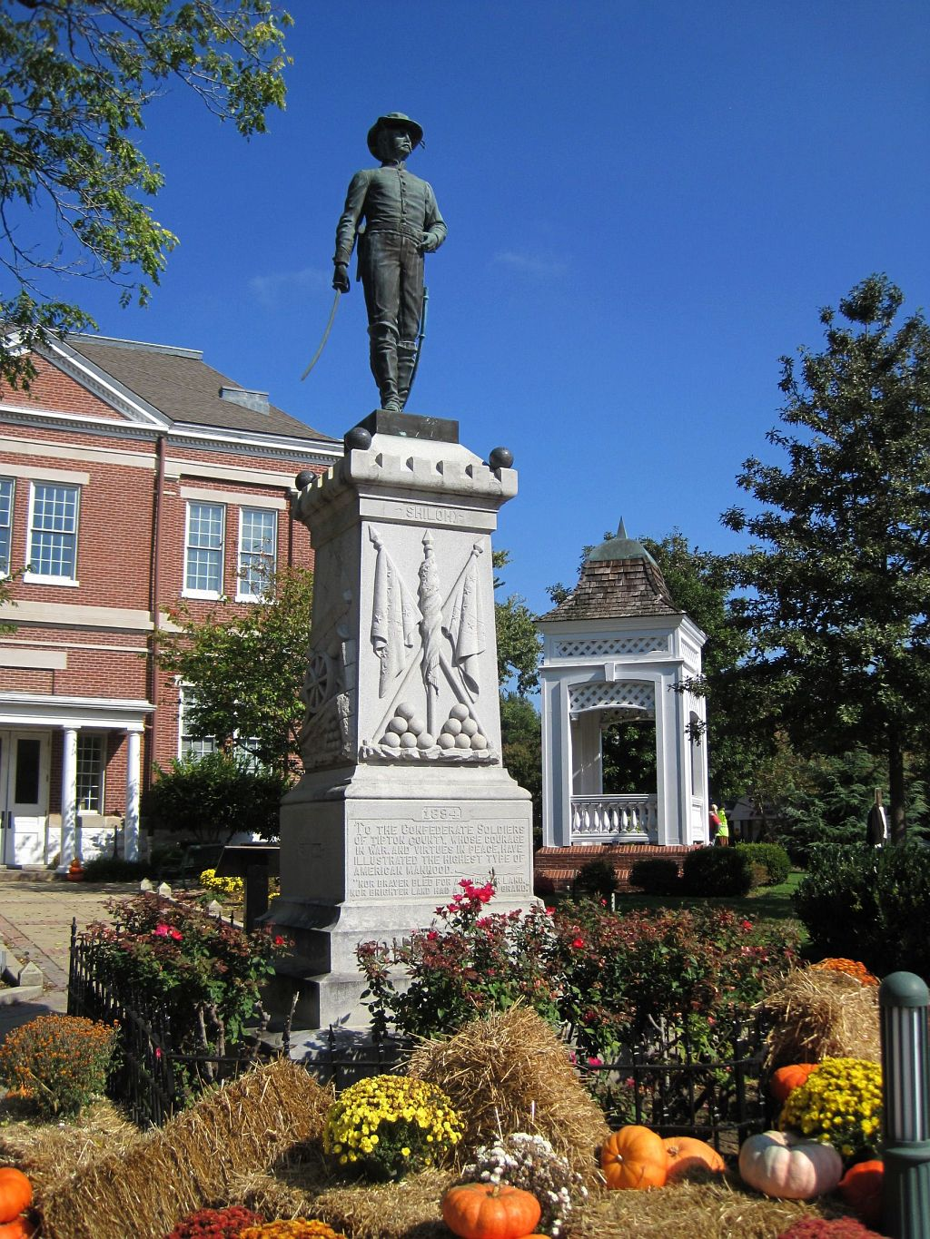 Tipton County court house, Covington, Tennessee